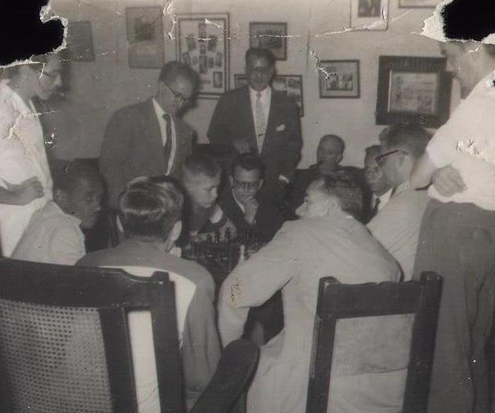 trimmed version of File:Bobby Fisher in Cuba.jpg